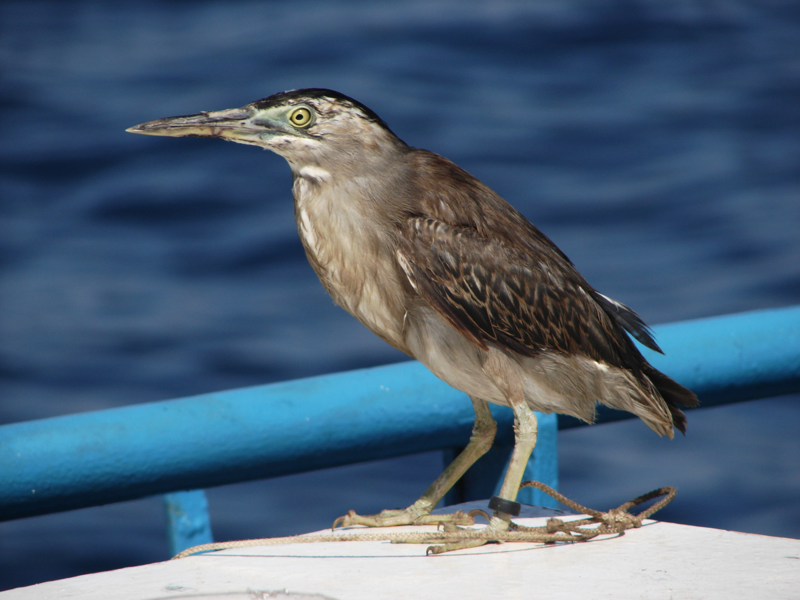 Butorides striata photograph from Maldives